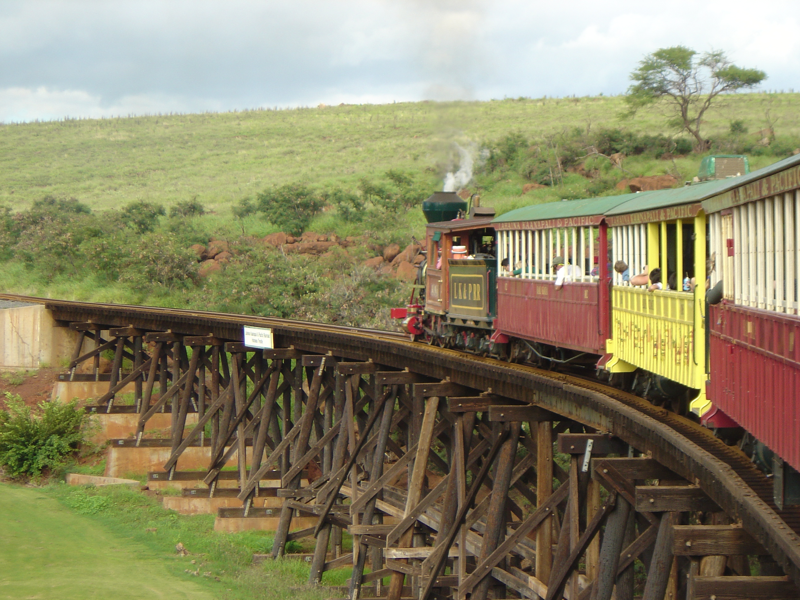 the Hahakea trestle on the Lahaina, Kaanapalia and Pacific Railroad in Maui